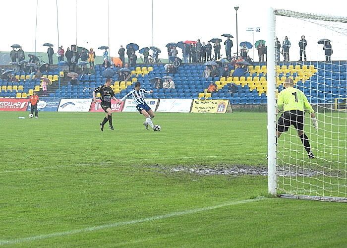 Wigry Suwałki against Stal Rzeszow - season 2009/10.